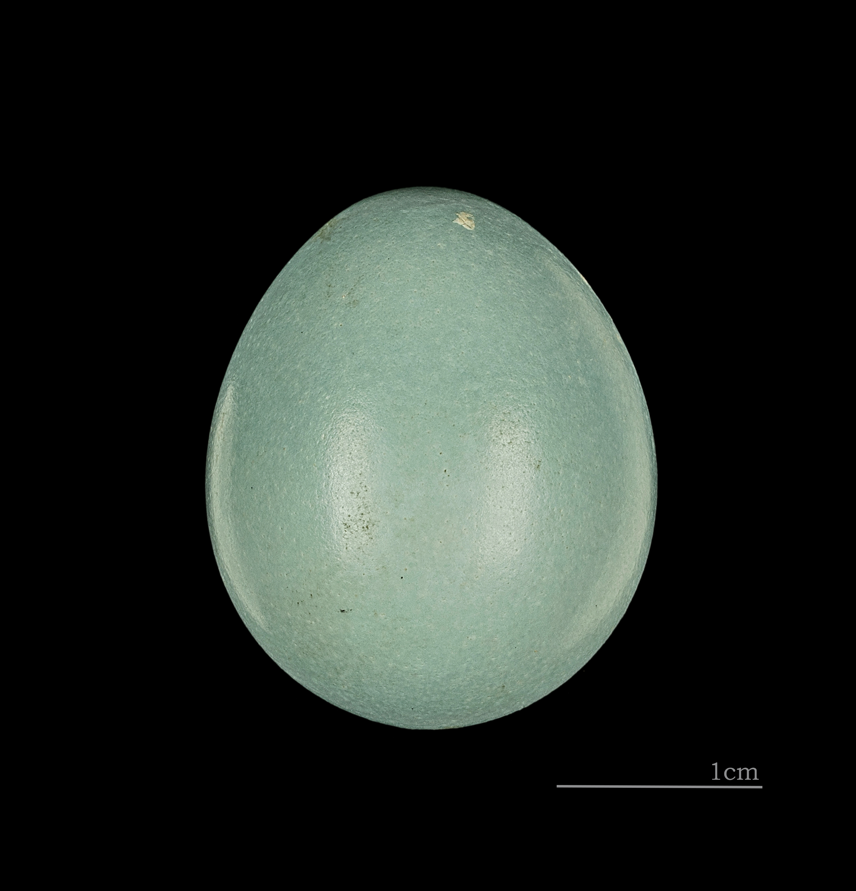 Egg of Chinese Babax Collection of Henri Heim de Balsac /Jacques Perrin de Brichambaut.